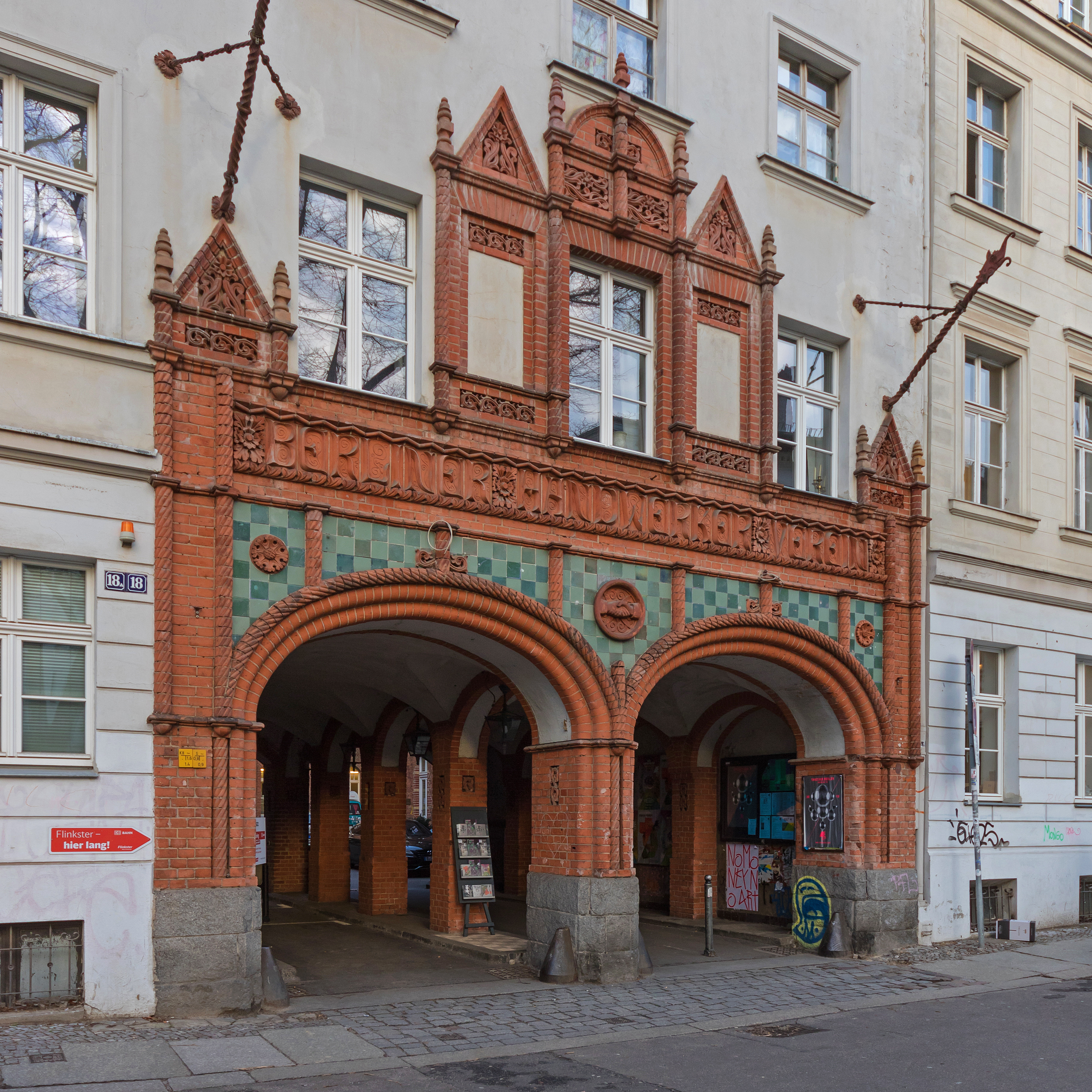 Detail of Handwerkervereinshaus Berlin, Sophienstraße